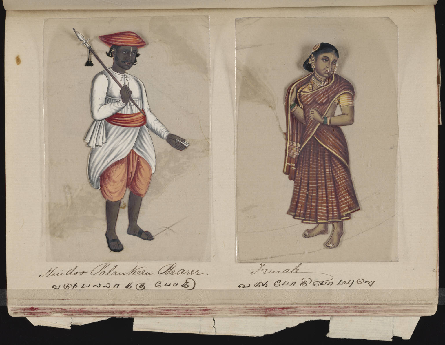 A page from the manuscript Seventy-two Specimens of Castes in India, which consists of 72 full-color hand-painted images of men and women of the various castes and religious and ethnic groups found in Madura, India at that time. Each drawing was made on mica, a transparent, flaky mineral which splits into thin, transparent sheets. As indicated on the presentation page, the album was compiled by the Indian writing master at an English school established by American missionaries in Madura, and given to the Reverend William Twining. The manuscript shows Indian dress and jewelry adornment in the Madura region as they appeared before the onset of Western influences on South Asian dress and style. Each illustrated portrait is captioned in English and in Tamil, and the title page of the work includes English, Tamil, and Telugu.